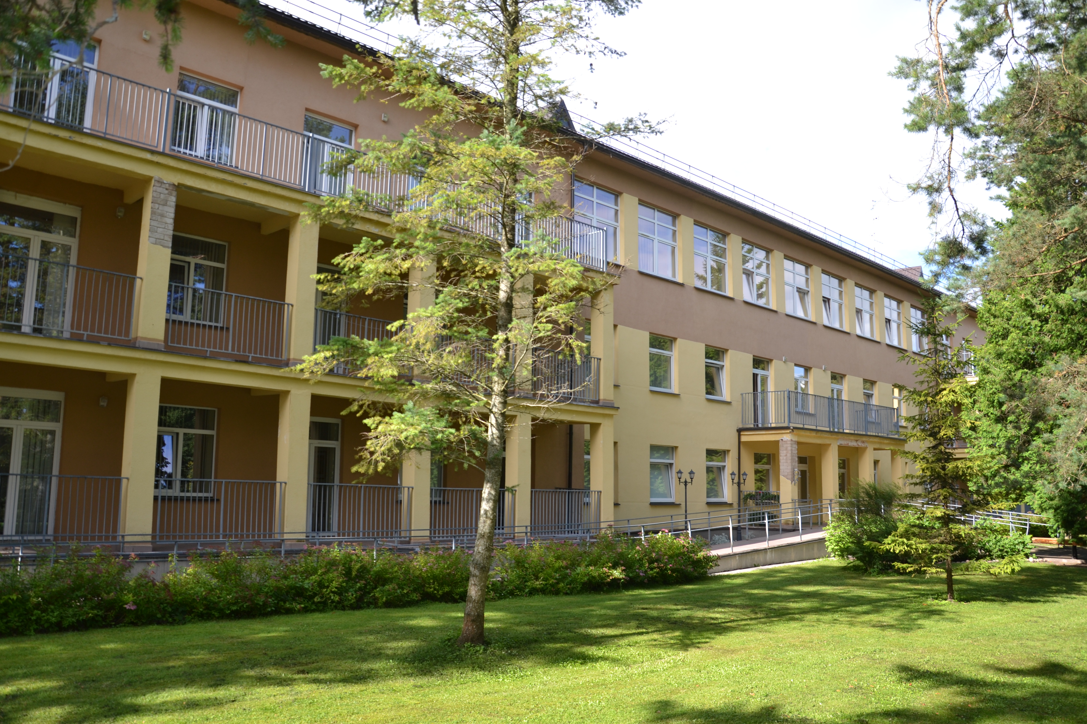 Building of Reabilitation Hospital, Birzai district, Lithuania